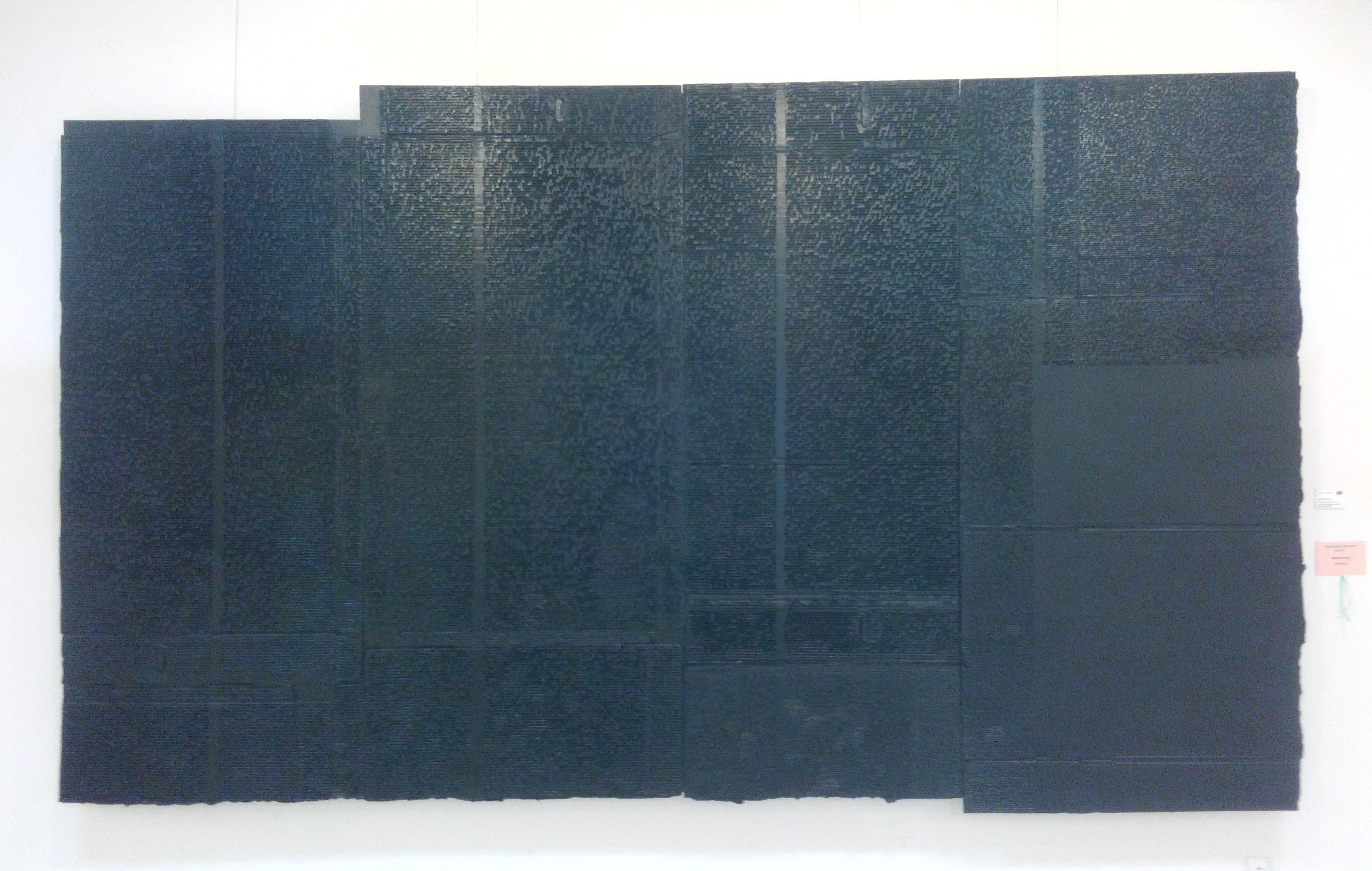 Memoir (2016)Bipasha Hayat's award winning art work in 17th asian art beinnale